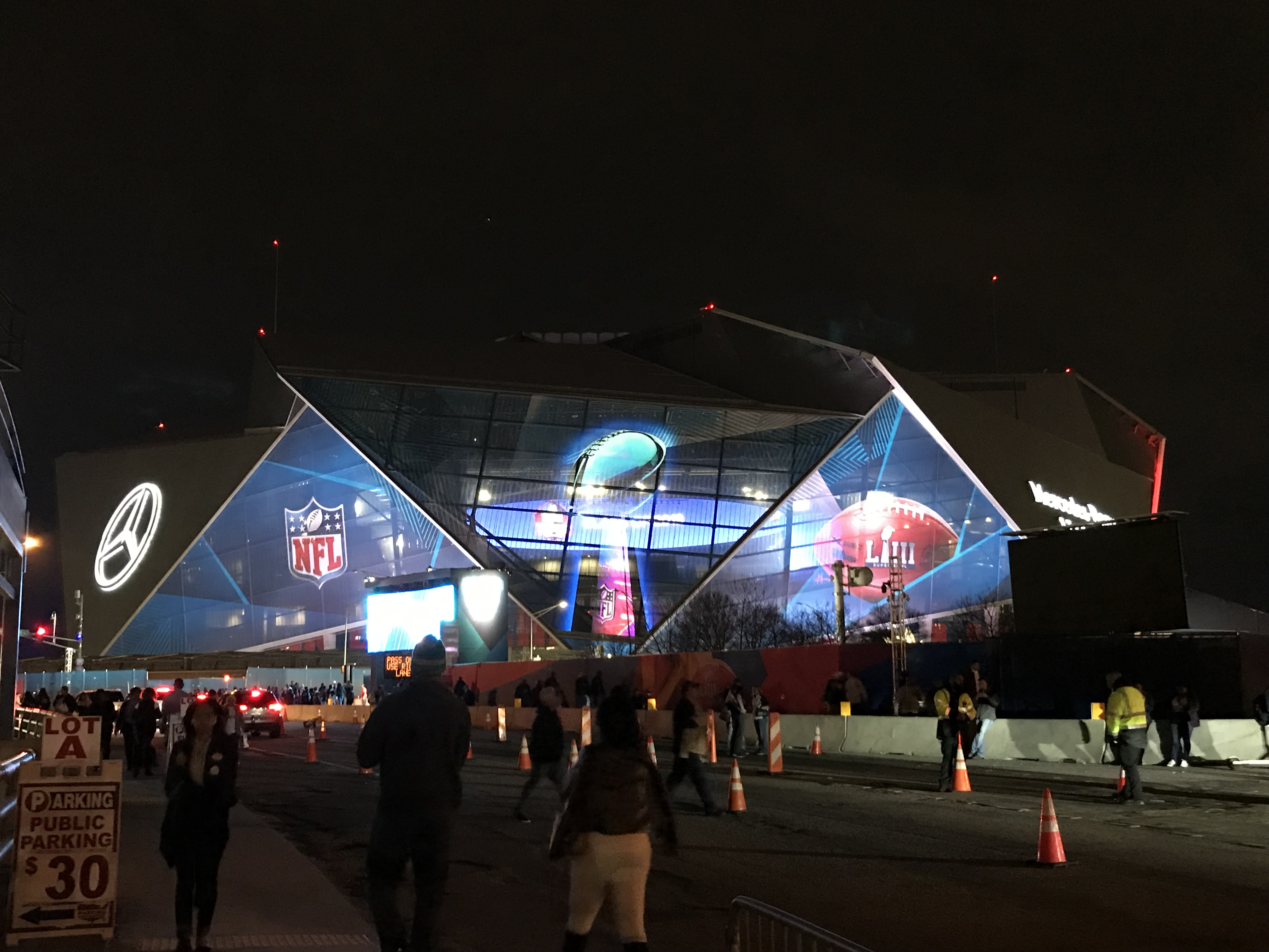 Super Bowl LIII- Mercedes-Benz Stadium, Downtown Atlanta